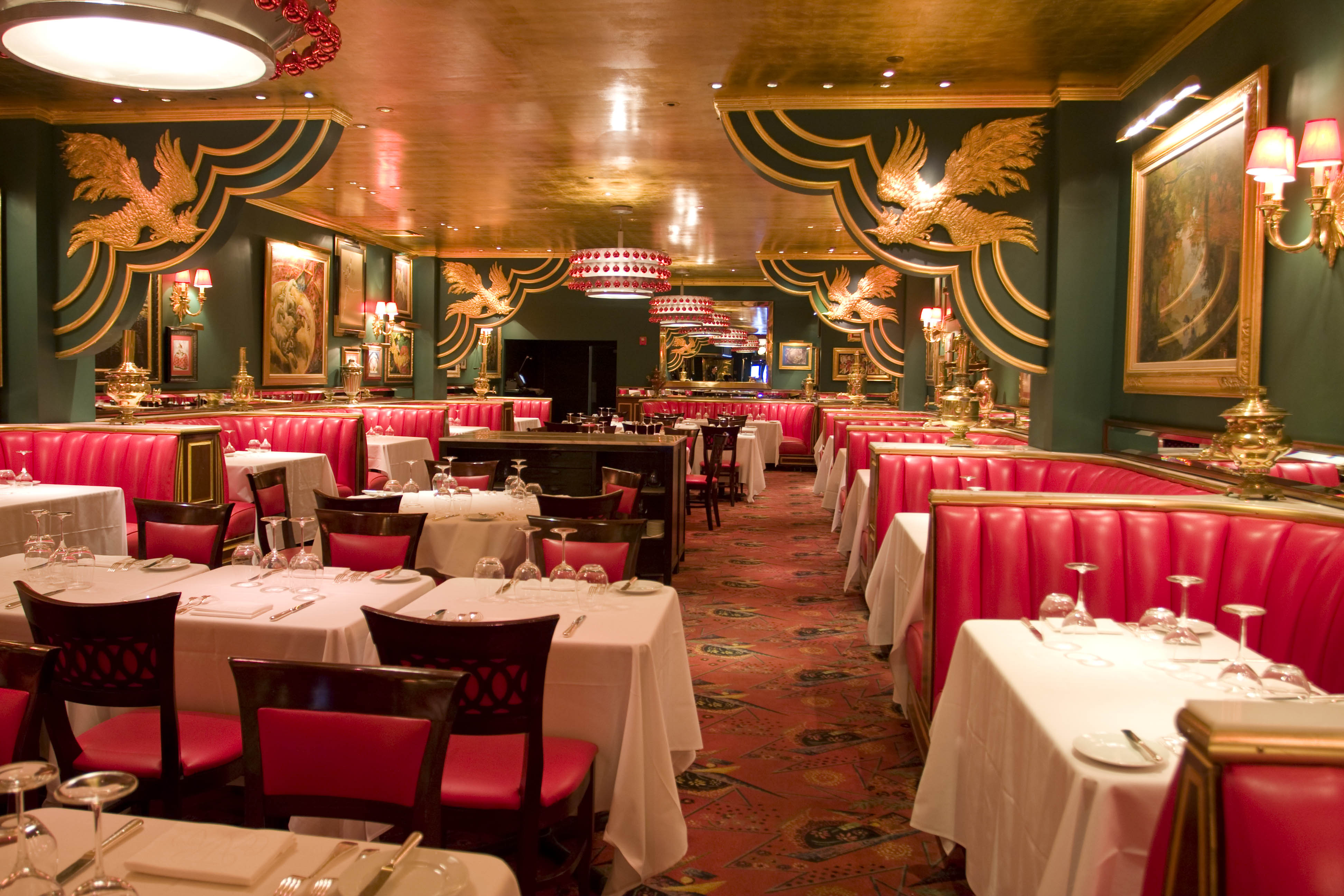 Interior shot of the Russian Tea Room restaurant in New York City. © Rubenstein, photographer Martyna Borkowski